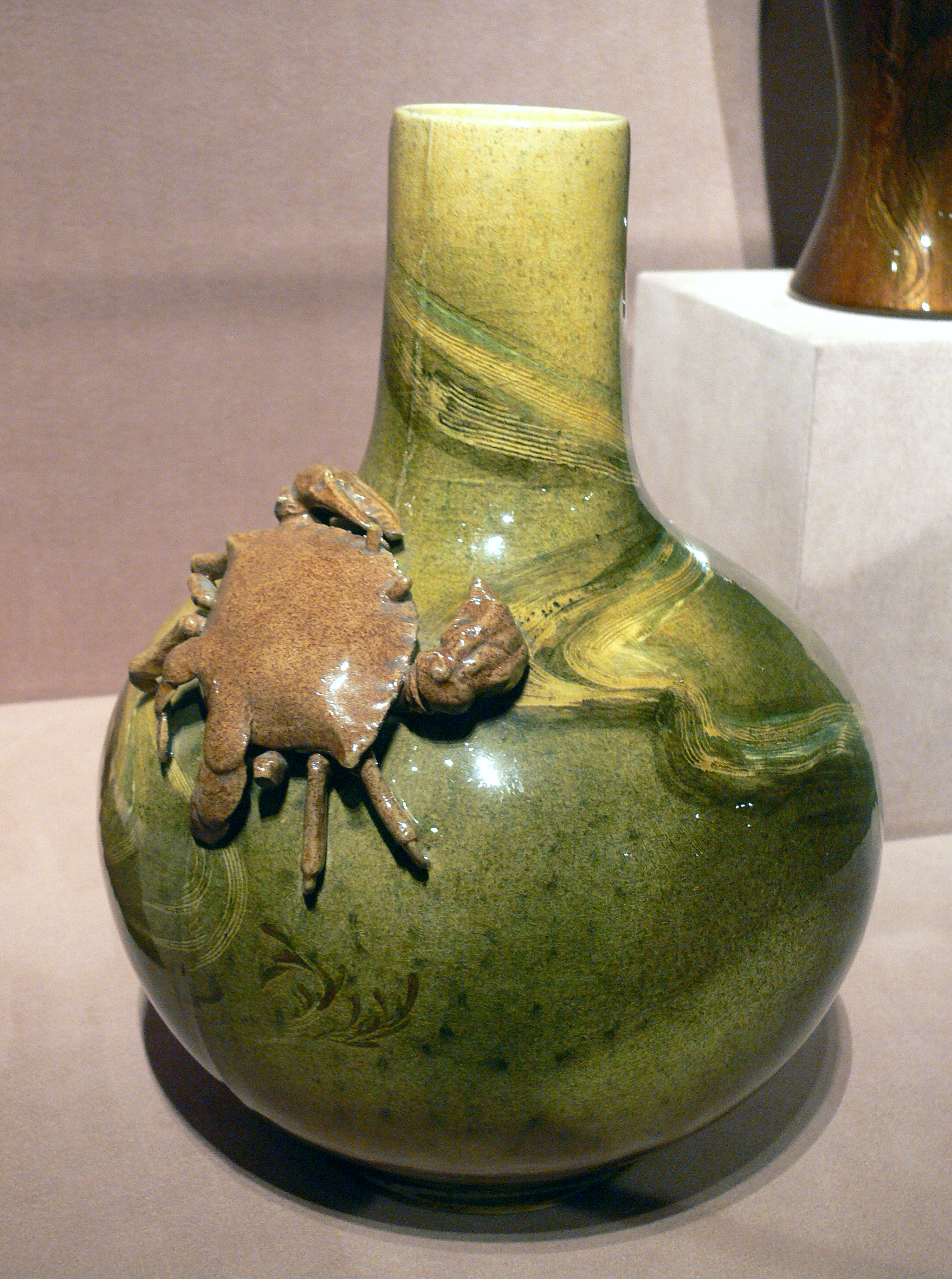 Vase; 1885; Manufacturer: Rookwood Pottery, Cincinnati; height 26.7, diameter 18.4 cm; Earthenware Dallas Museum of Art, Dallas, Texas; Dallas Museum of Art, gift of Elizabeth and Duncan Boeckman; object number 1993.44